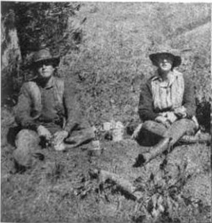 Black and white photo of married Western authors, Maxwell Struthers Burt and Katharine Newlin Burt